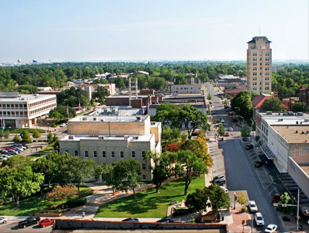 Skyline of Temple Texas